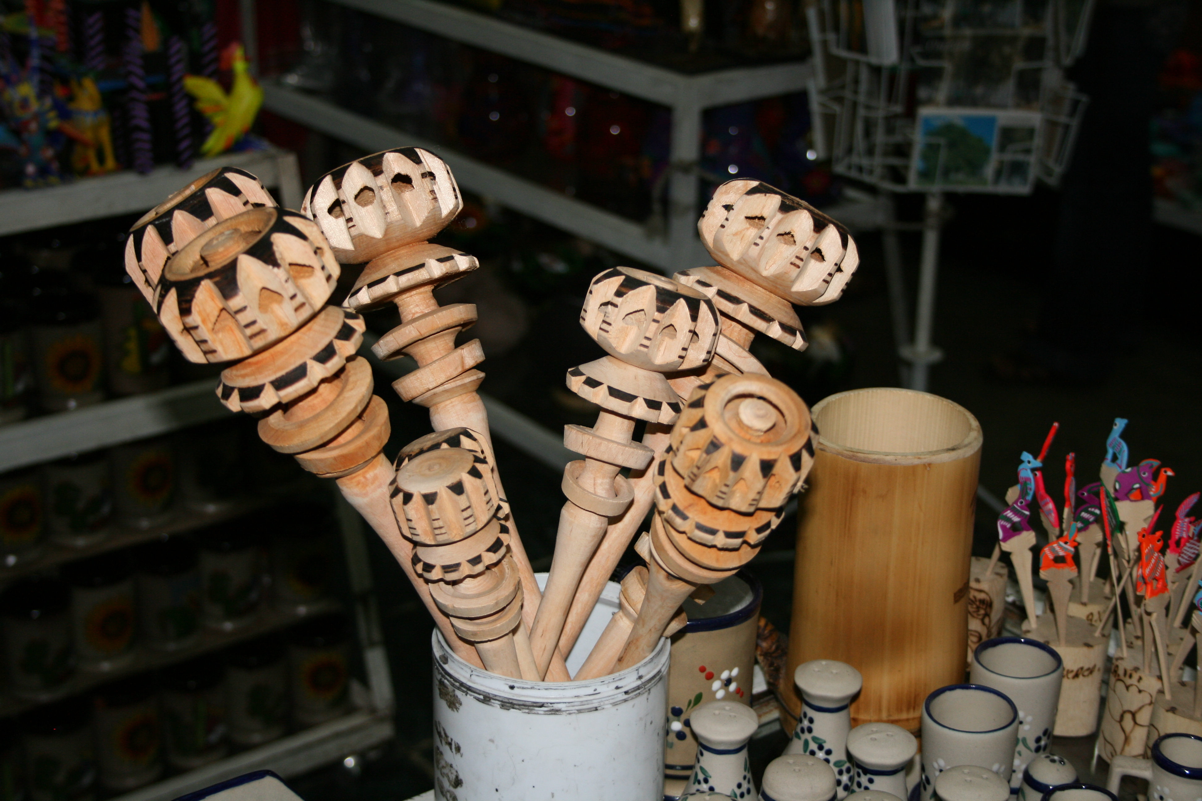 Molinillos (wooden whisks) for sale in Oaxaca, Mexico